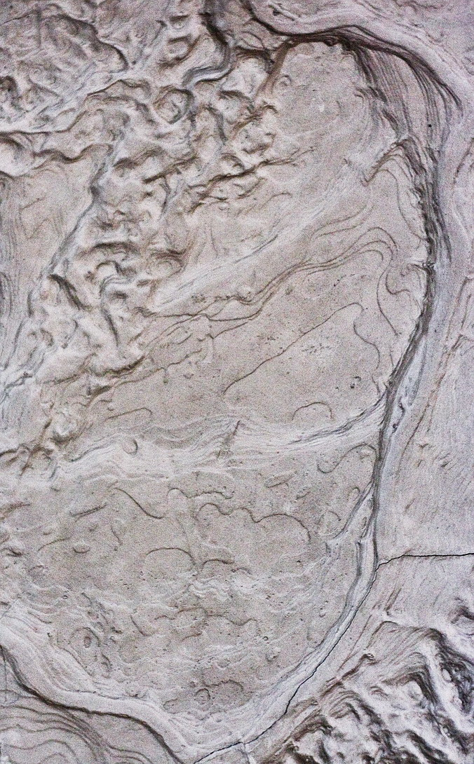 Žirmūnai elderate in the elevation map of Vilnius